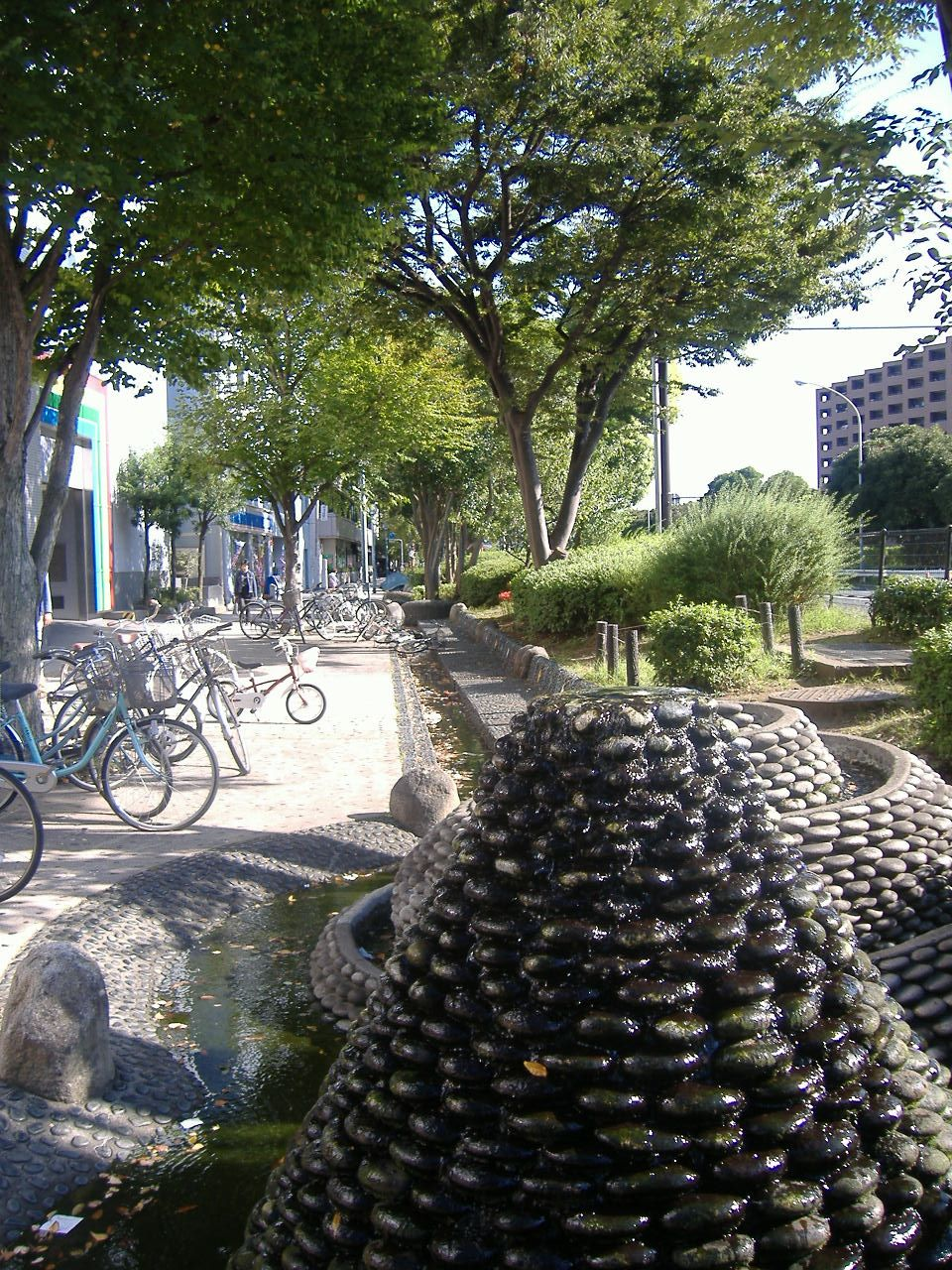 Isogo_avenue (Yokohama, Japan)